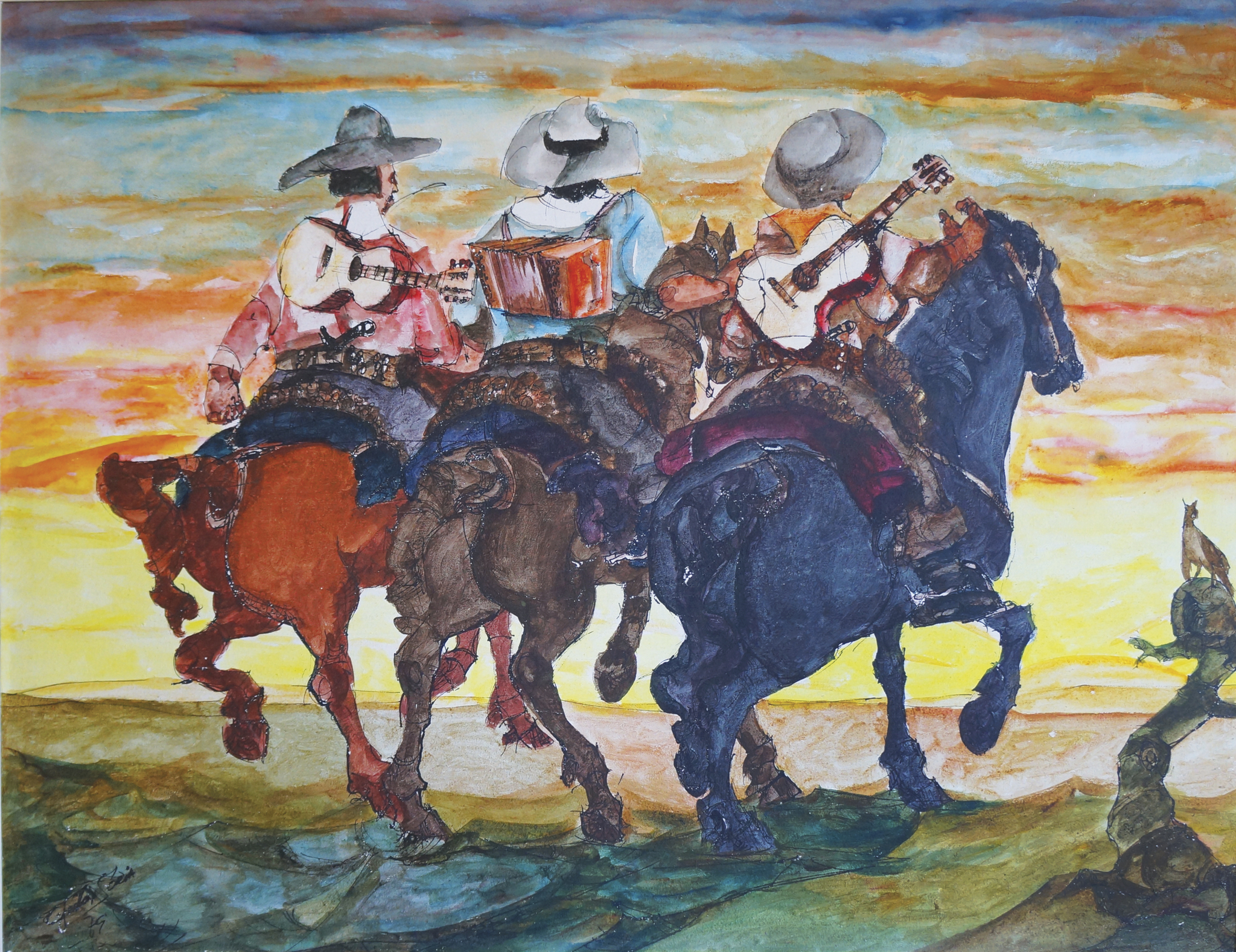 Returning from serenades at dusk.